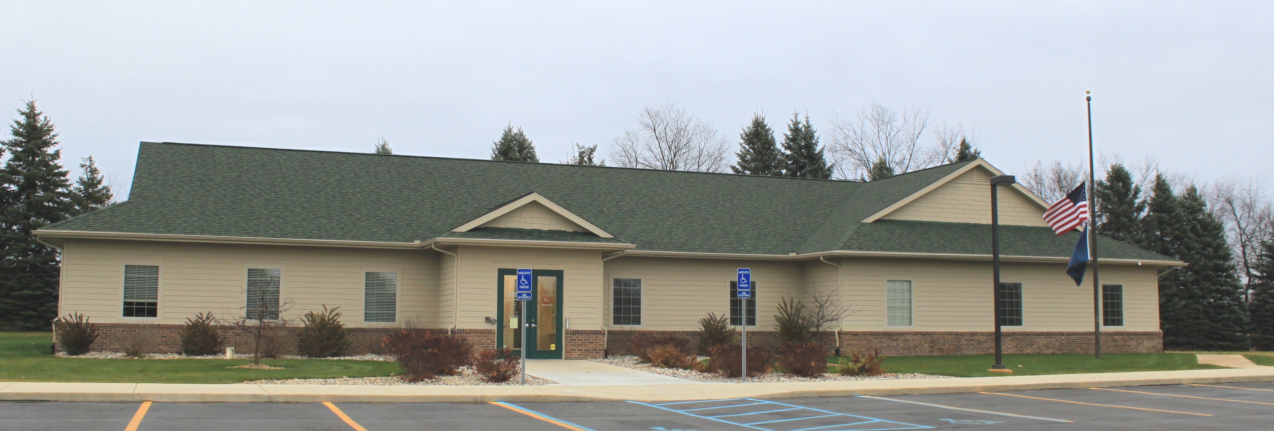 Putnam Township Hall, 3280 West M-36, Michigan